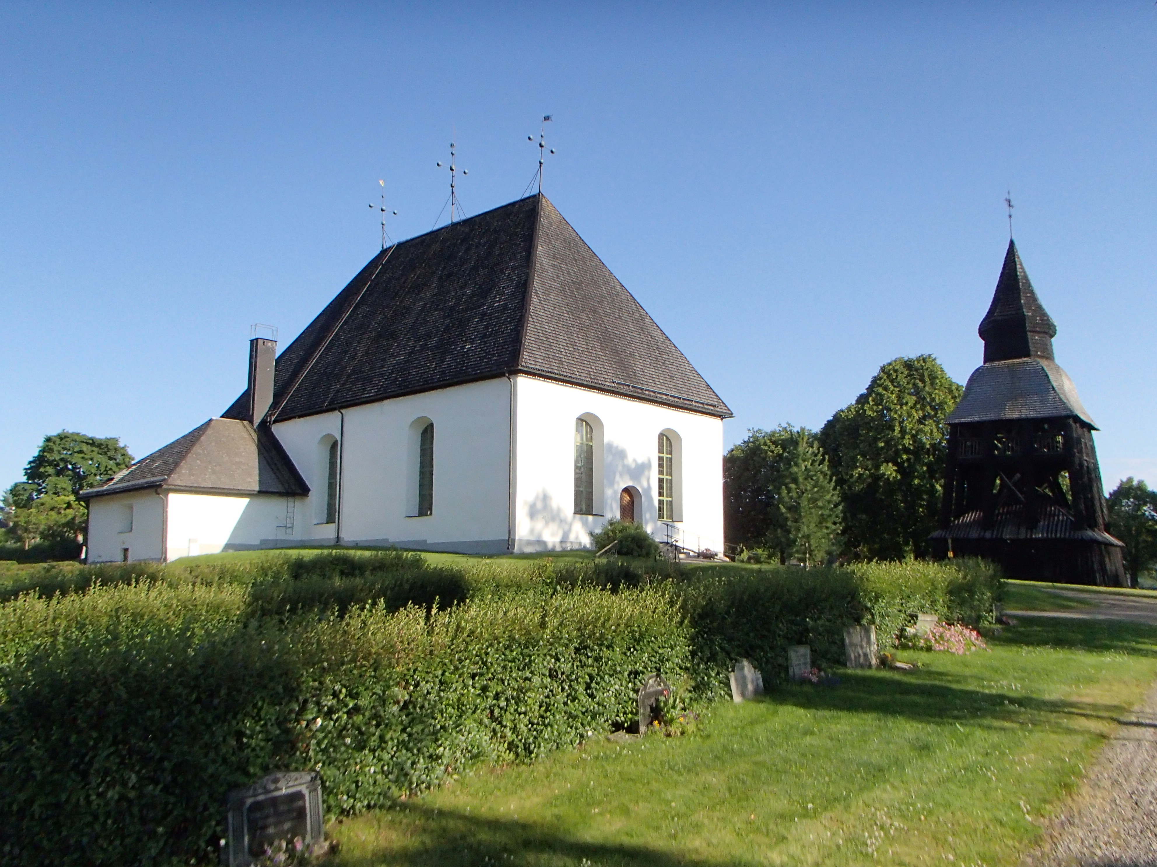 The church and bell tower buildings of "Bjuråkers kyrka" at Söderblomsvägen 12 in Bjuråker, Hudiksvall Municipality